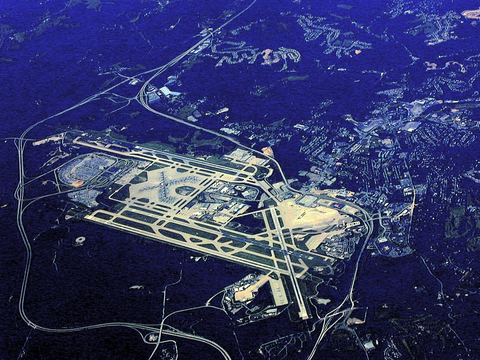 Aerial view of Pittsburgh International Airport